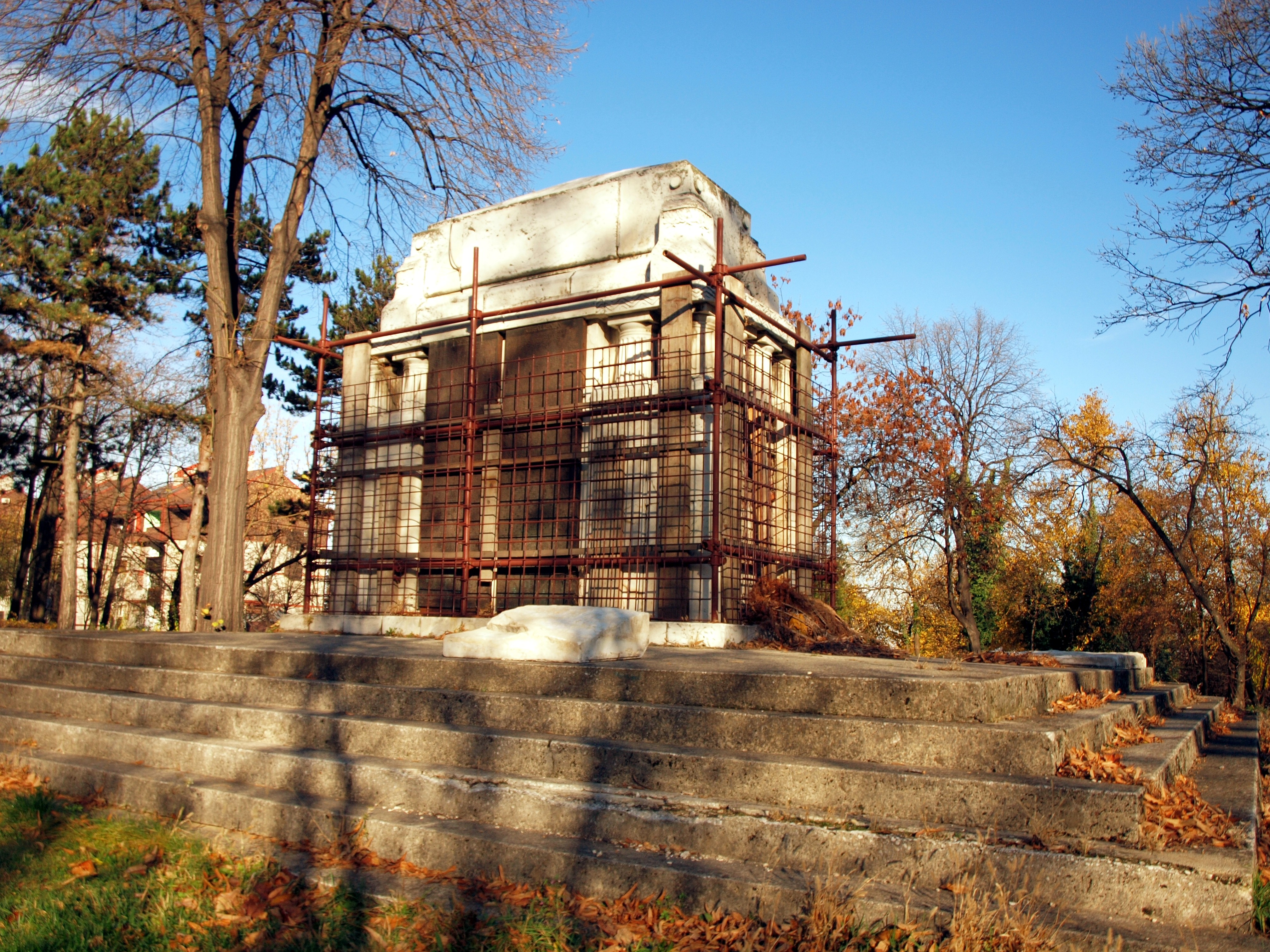 Grave WW I German Soldiers Serbia 1915